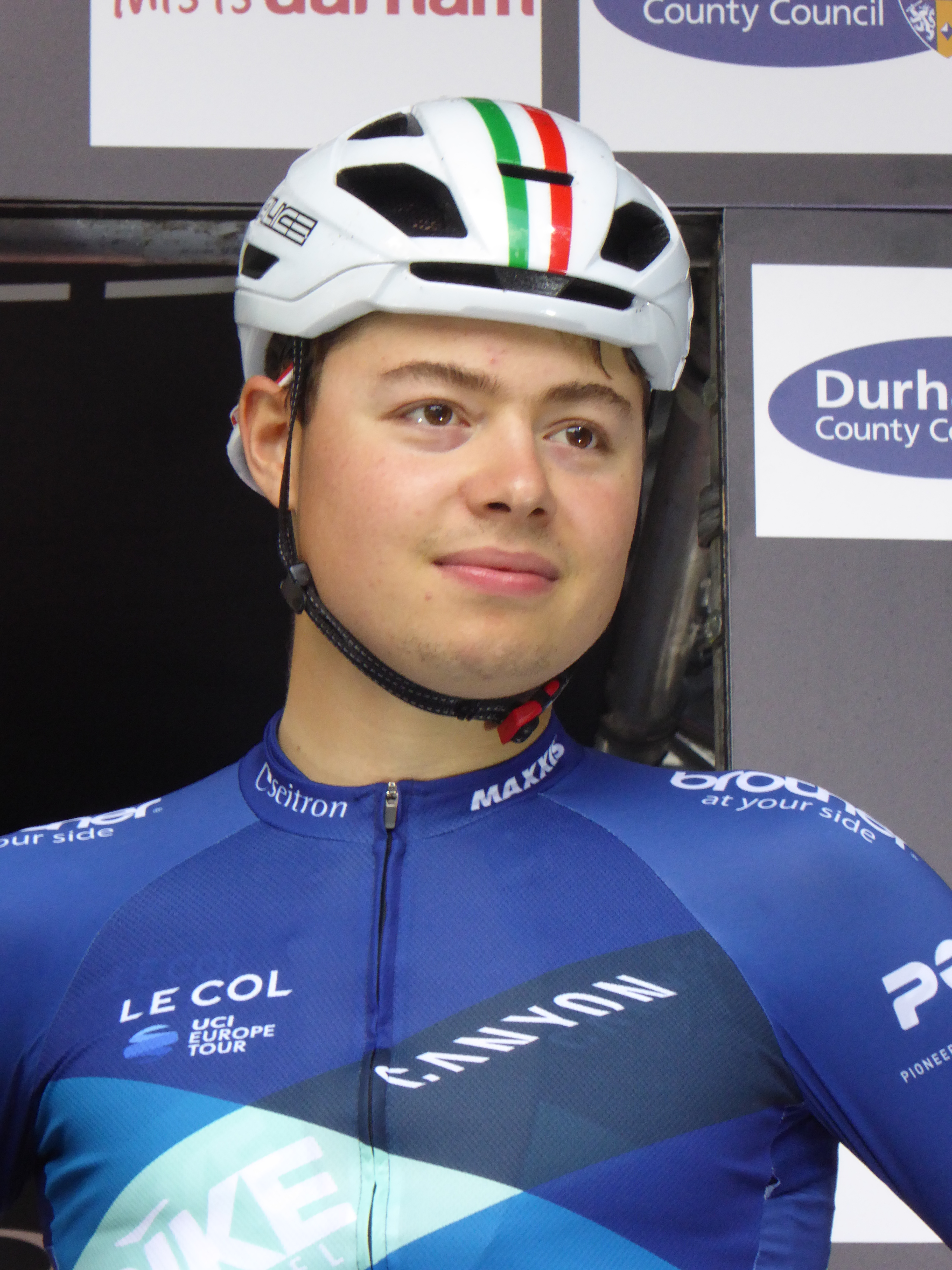 Harry Tanfield (Bike Channel-Canyon), prior to Round 9 of the Tour Series in Durham, on 27 May 2017.